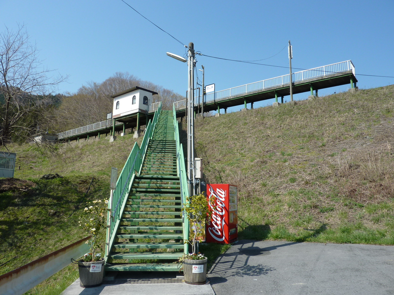 Koishihama Station on Sanriku Railway (Sanrikuchoryori, Ofunato-shi, Iwate, Japan)